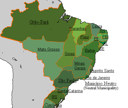 Map of the Empire of Brazil in 1824.